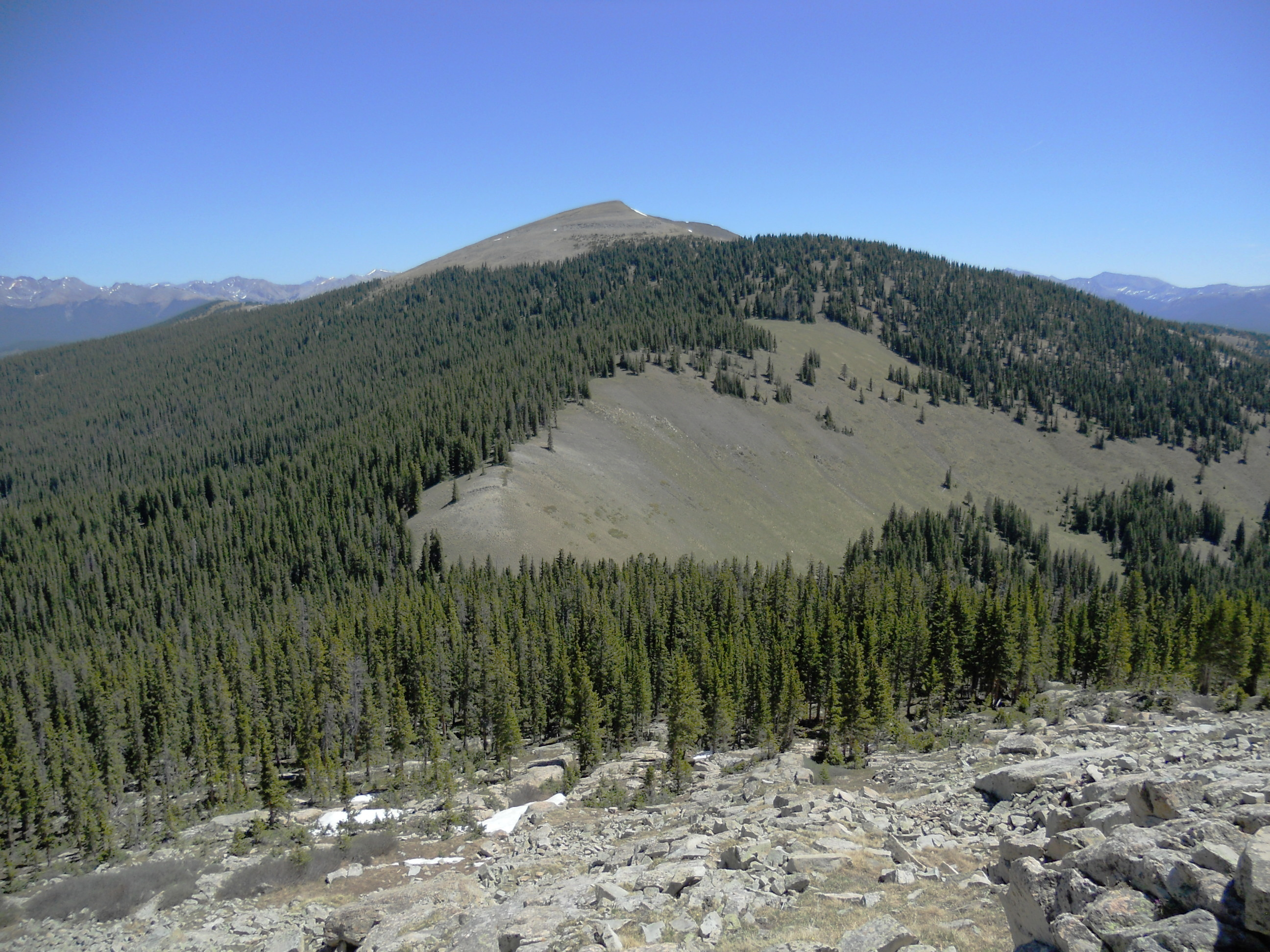 Matchless Mountain, elevation 12,383 ft (3,774 m), as viewed from the southwest. The mountain is located in the Gunnison National Forest.